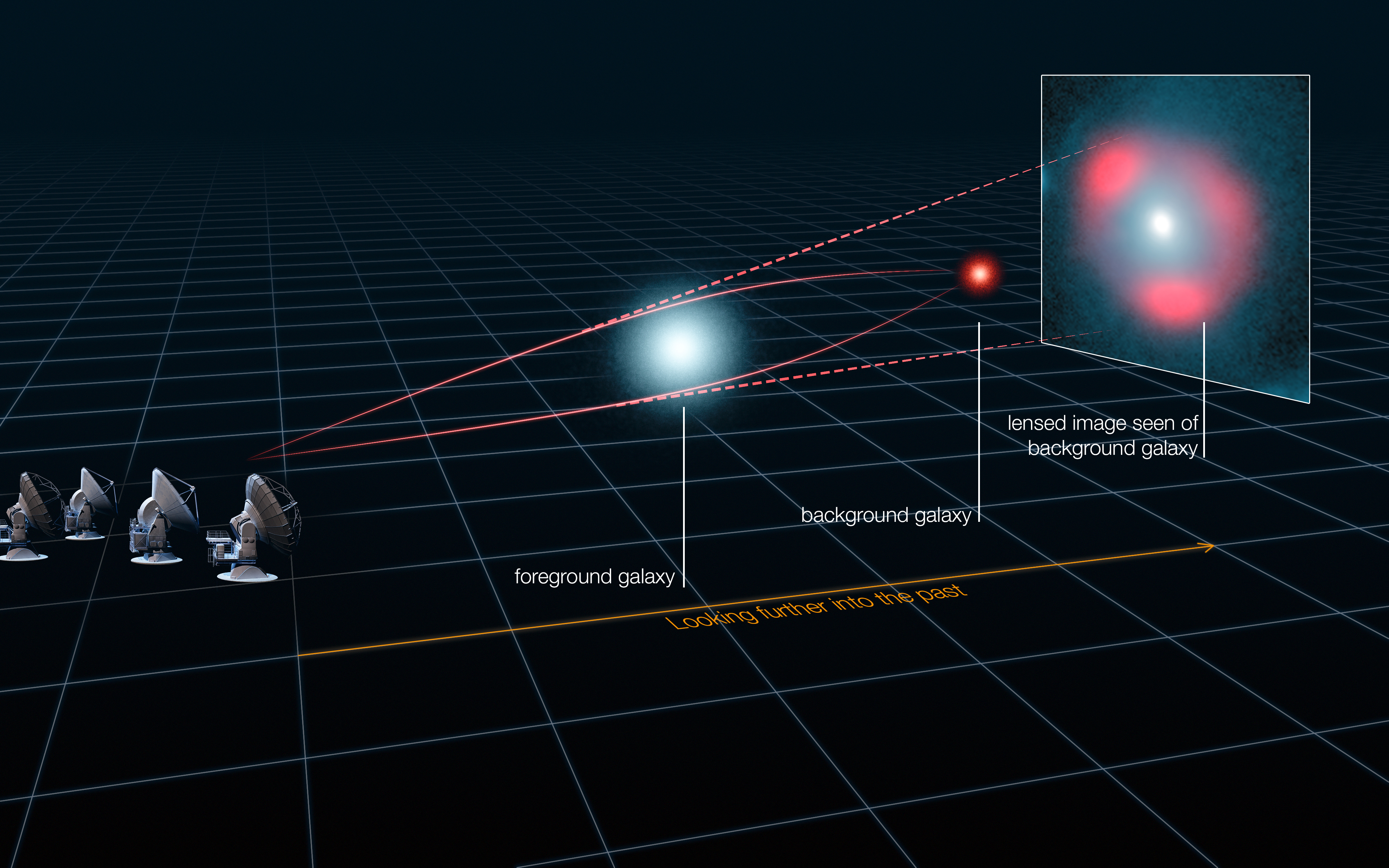 This schematic image represents how light from a distant galaxy is distorted by the gravitational effects of a nearer foreground galaxy, which acts like a lens and makes the distant source appear distorted, but brighter, forming characteristic rings of light, known as Einstein rings. An analysis of the distortion has revealed that some of the distant star-forming galaxies are as bright as 40 trillion Suns, and have been magnified by the gravitational lens by up to 22 times.